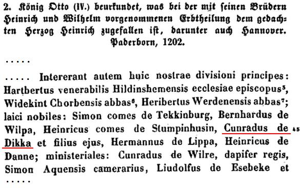 Part of the Document-Book of the city of Hanover